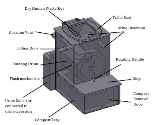 Example of a self-contained composting toilet, designed by Toilets for People.